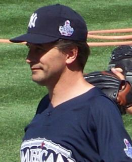 Billy Baldwin at the 2008 All Stars and Legends Softball game at Yankee Stadium